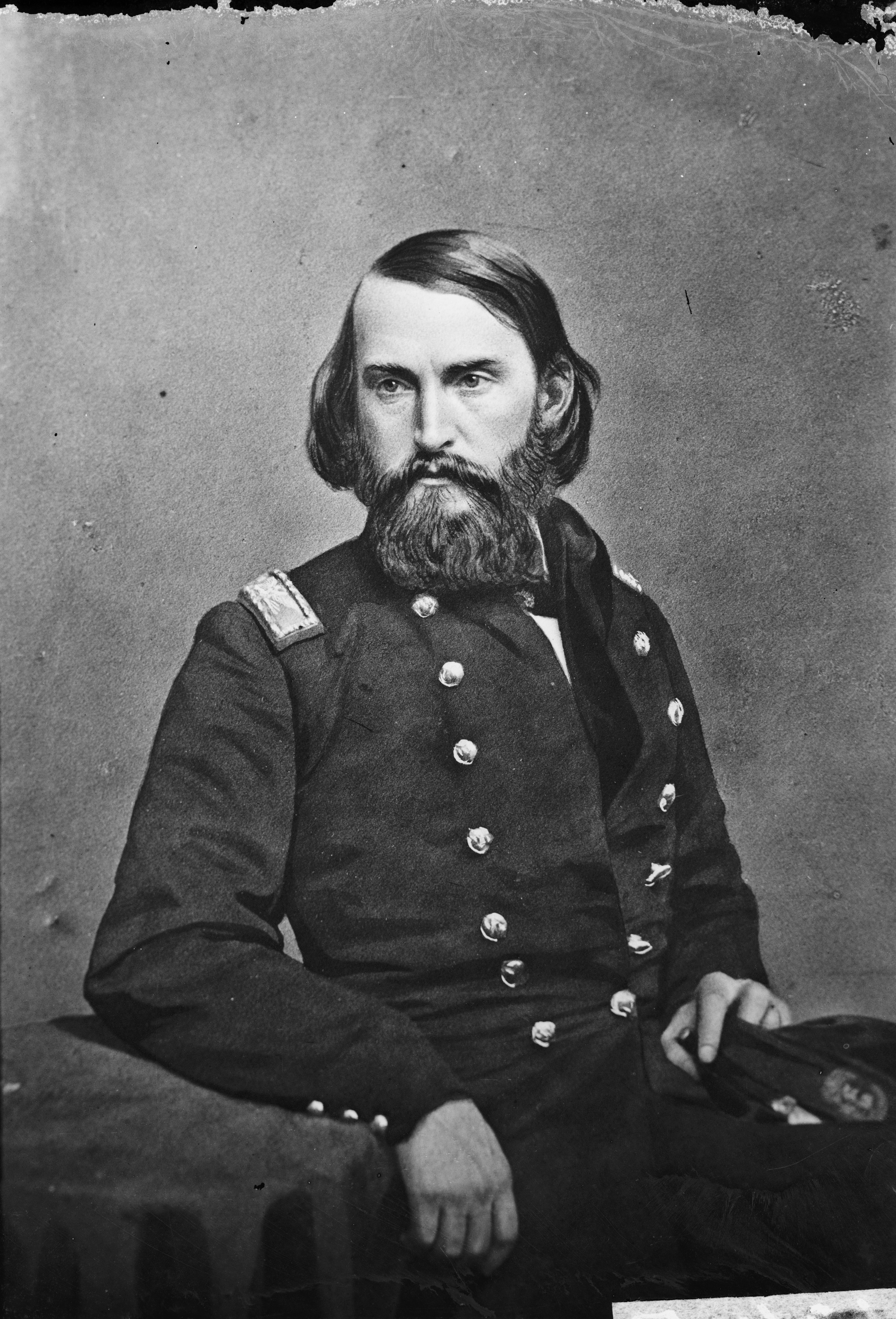 Colonel John T. Croxton